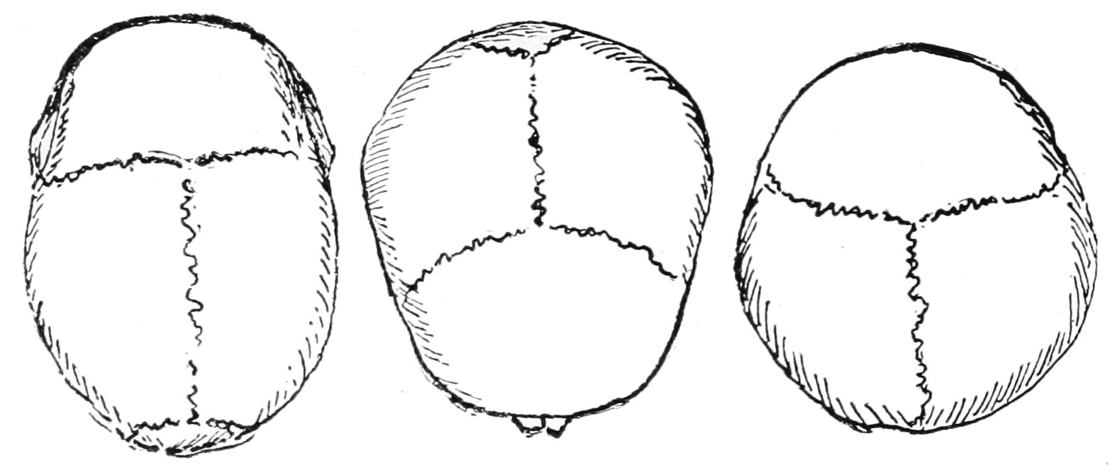 Cranium shapes from above